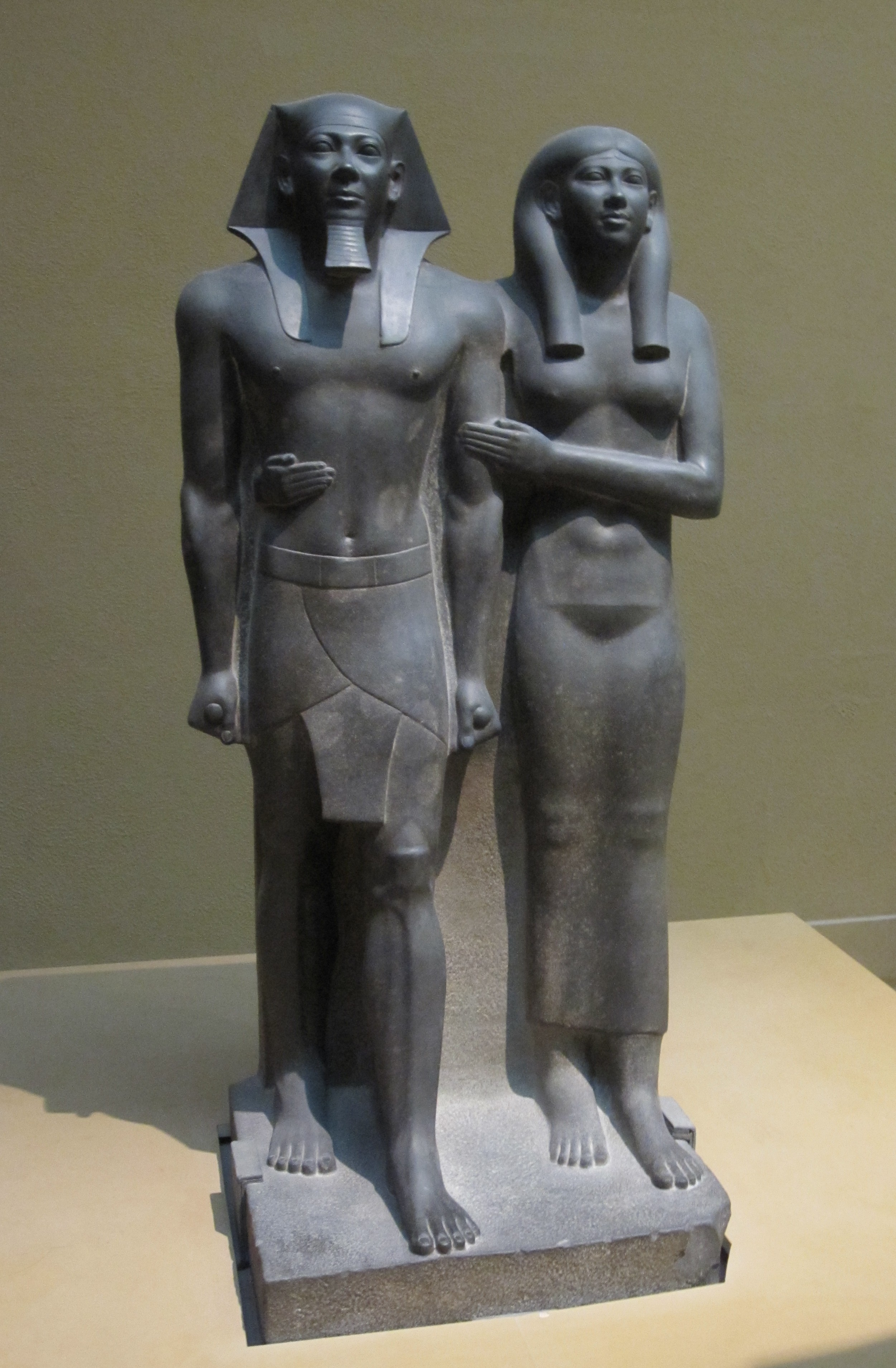 King Menkaura (Mycerinus) and queen Egyptian, Old Kingdom, Dynasty 4, reign of Menkaura, 2490–2472 B.C. Findspot: Giza, Egypt Overall: 142.2 x 57.1 x 55.2 cm, 676.8 kg (56 x 22 1/2 x 21 3/4 in., 1492.1 lb.) Block (Wooden skirts and two top): 53.3 x 180 x 179.7 cm (21 x 70 7/8 x 70 3/4 in.) Greywacke. Accession number 11.1738. More information at .